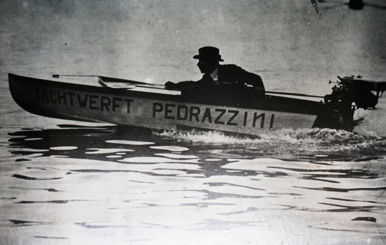 Pedrazzini Boat